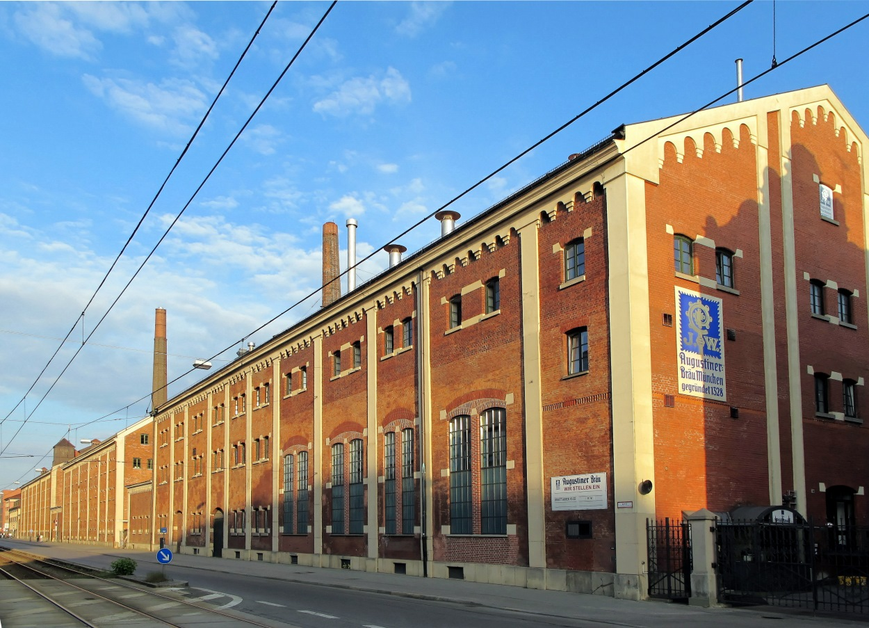 Munich, suburb "Schwanthalerhöhe", Brewery "Augustinerbrauerei"